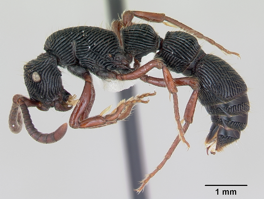 Profile view of ant Cerapachys crawleyi specimen casent0173074.